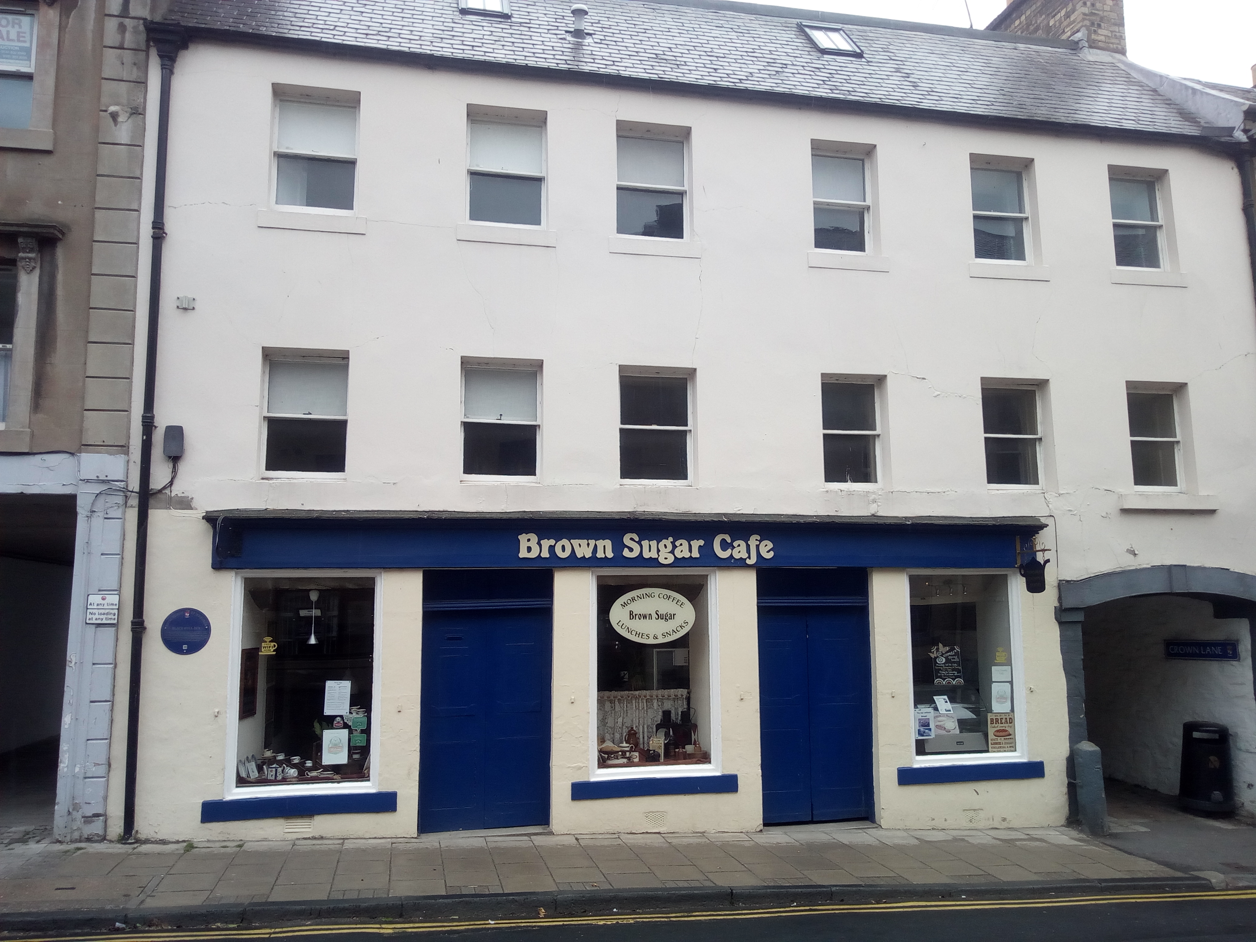 was Black Bull Inn and now Brown Sugar Cafe in Canongate in Jedburgh